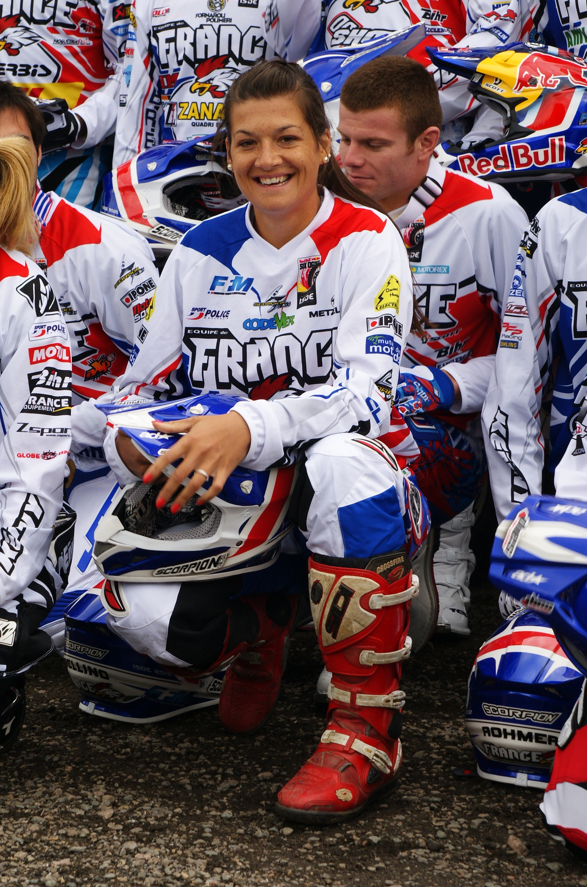 The making of this document was supported by the Community-Budget of Wikimedia Germany. 87. ISDE Saxony 2012 Ludivine Puy